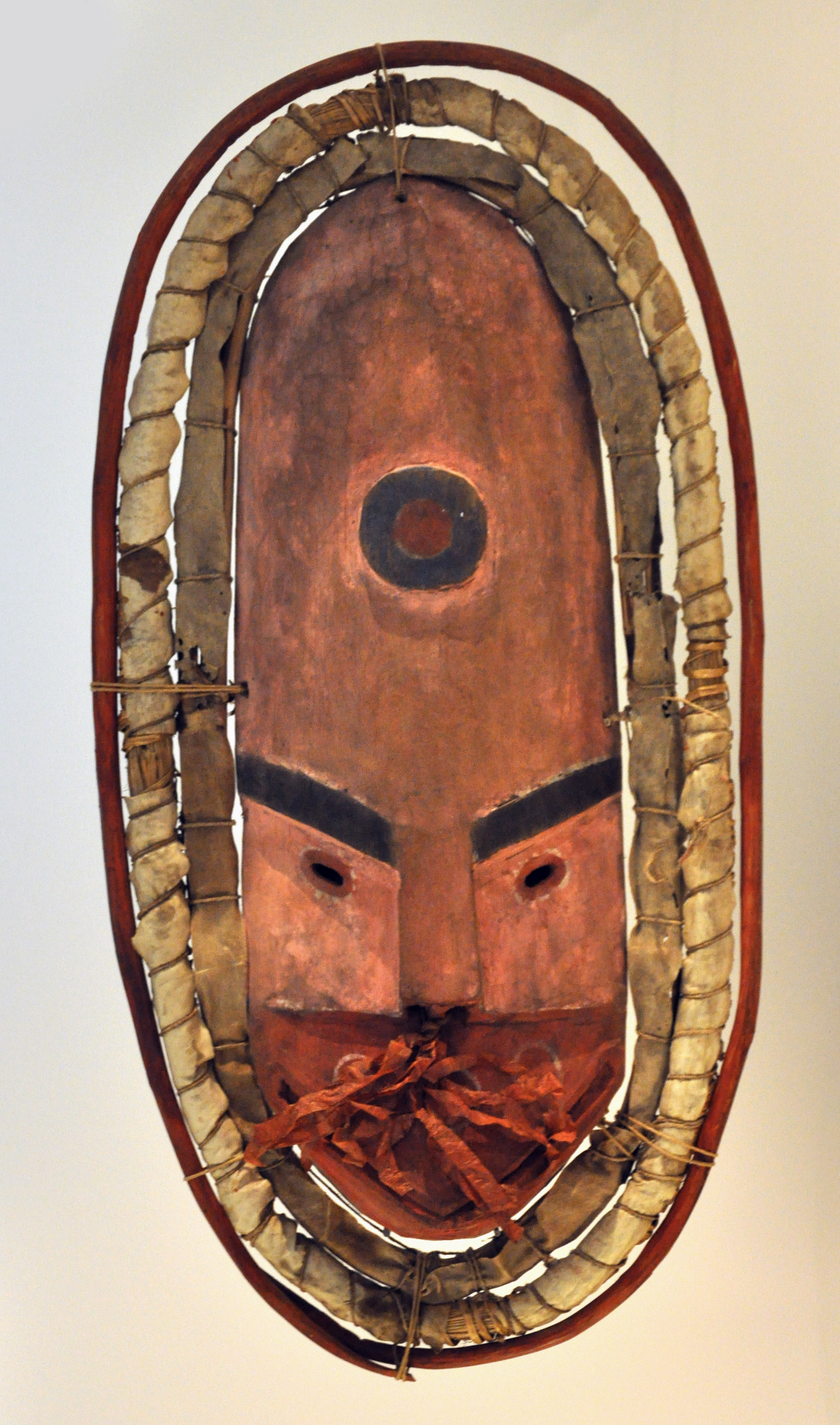 British Museum referenceAm1890,0908.9Detailed descriptionMask from Kuskokwim Bay (wood, fur, straw, feather, leaf)Sizelength: 57 cmLocationRoom 24